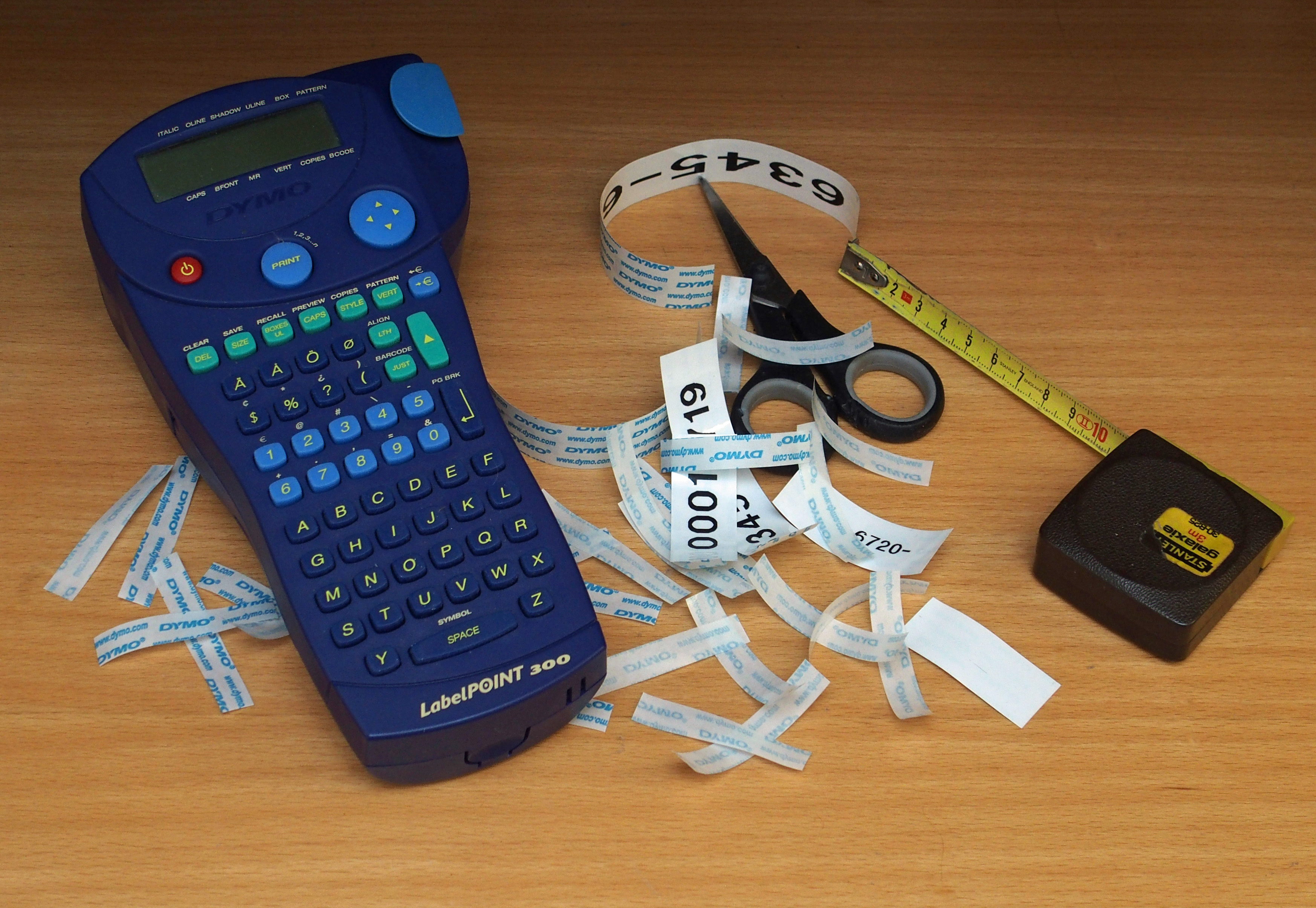 Labelling-with-Dymo-LabelPoint-300